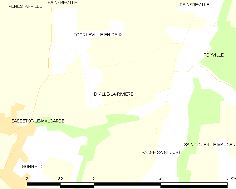 Map of French municipality Biville-la-Rivière